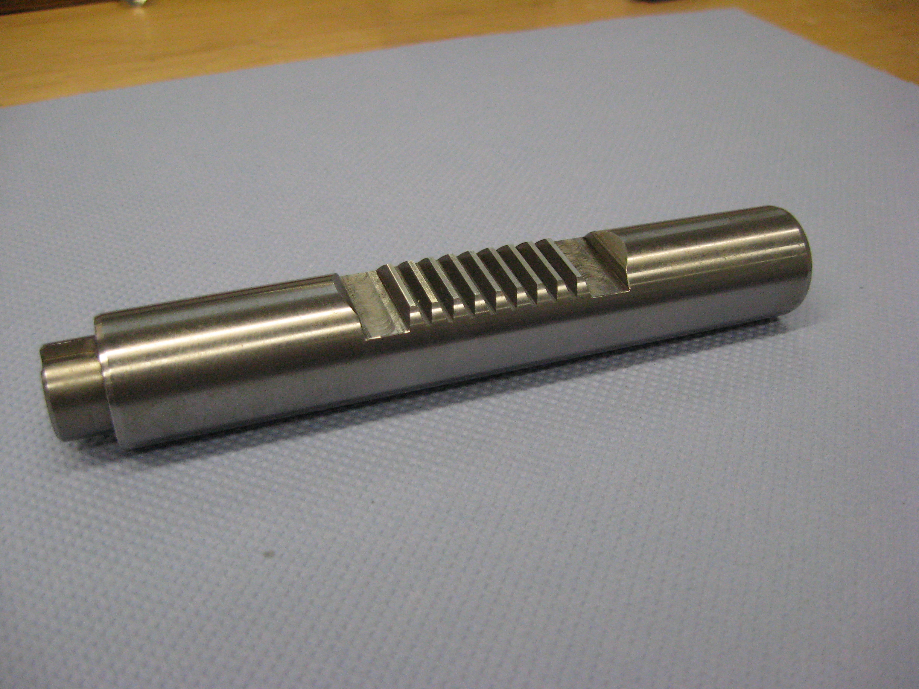 round toothed rack, gear rack